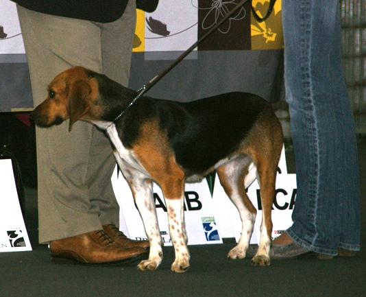 A Beagle-Harrier female in France